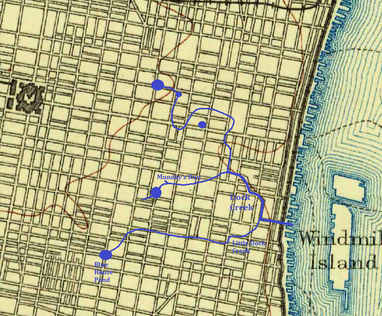 Map showing the former course of Dock Creek and its tributaries in Philadelphia. Base map is an 1891 USGS map. Course is based on this map and on various other written sources.